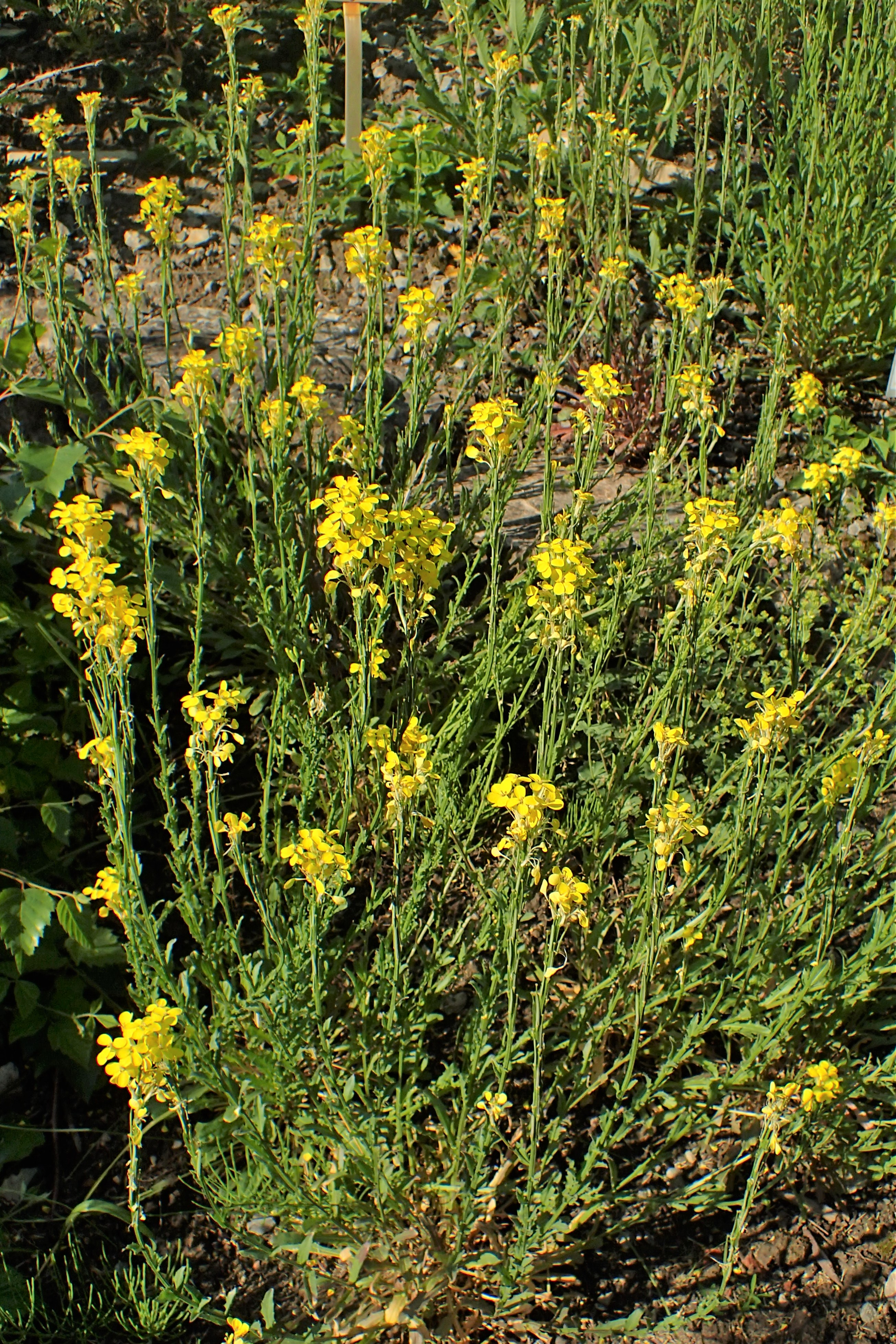 Erysimum cuspidatum in the Botanischer Garten, Berlin-Dahlem